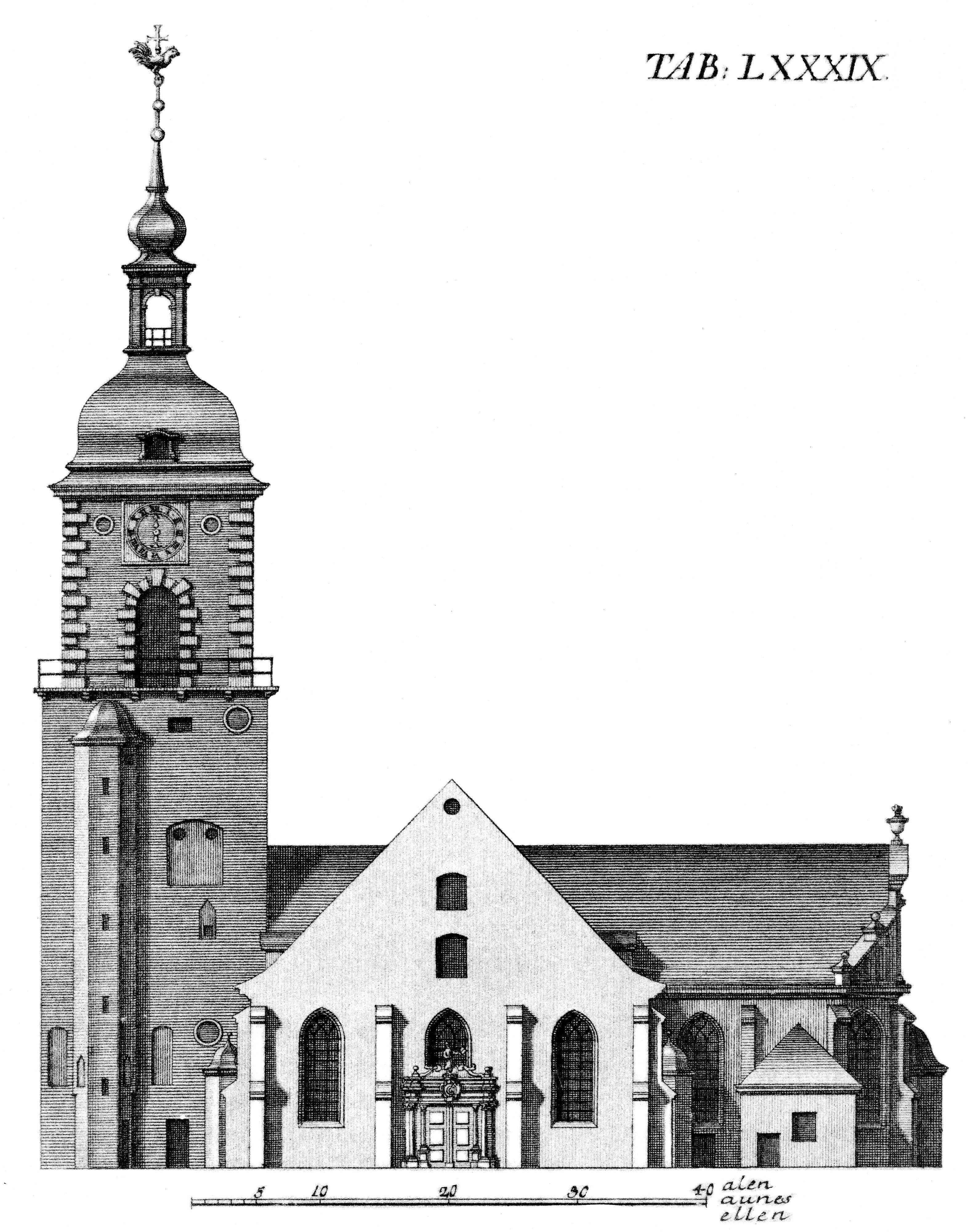 From Hafnia Hodierna by Laurids de Thurah, 1748. Drawings of buildings in Copenhagen. Tab.LXXXIX. Sankt Petri Kirke.